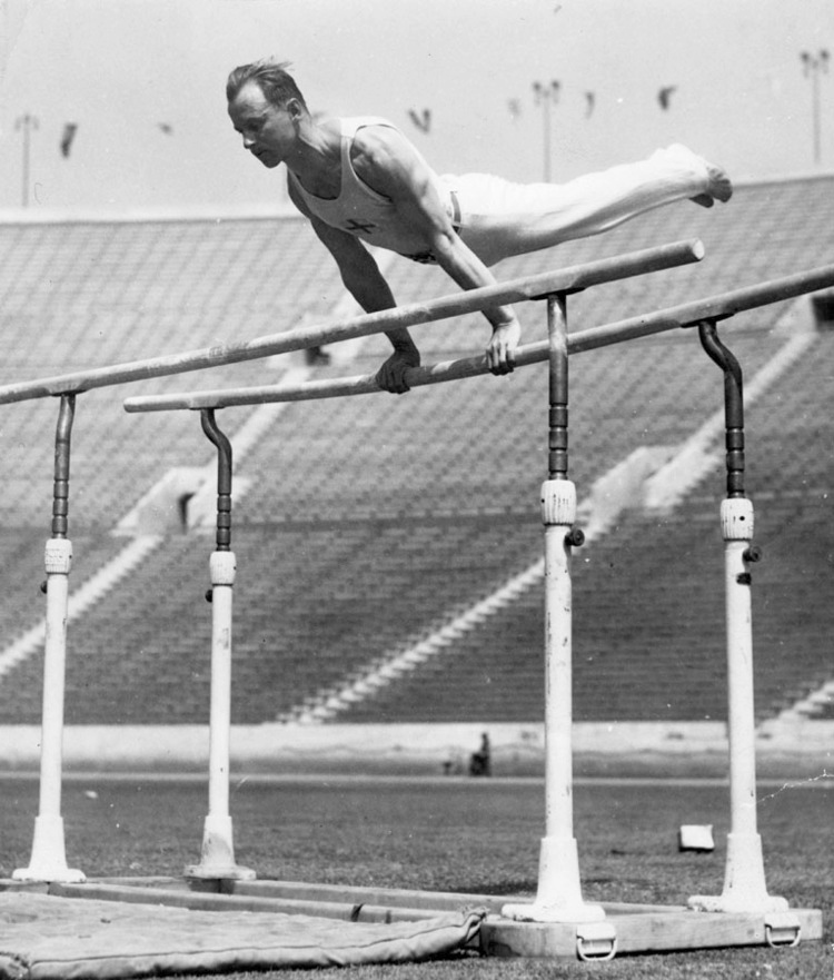 Heikki Savolainen (gymnast) at the 1932 Olympics